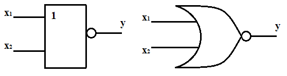 VÕI-EI loogikaskeem